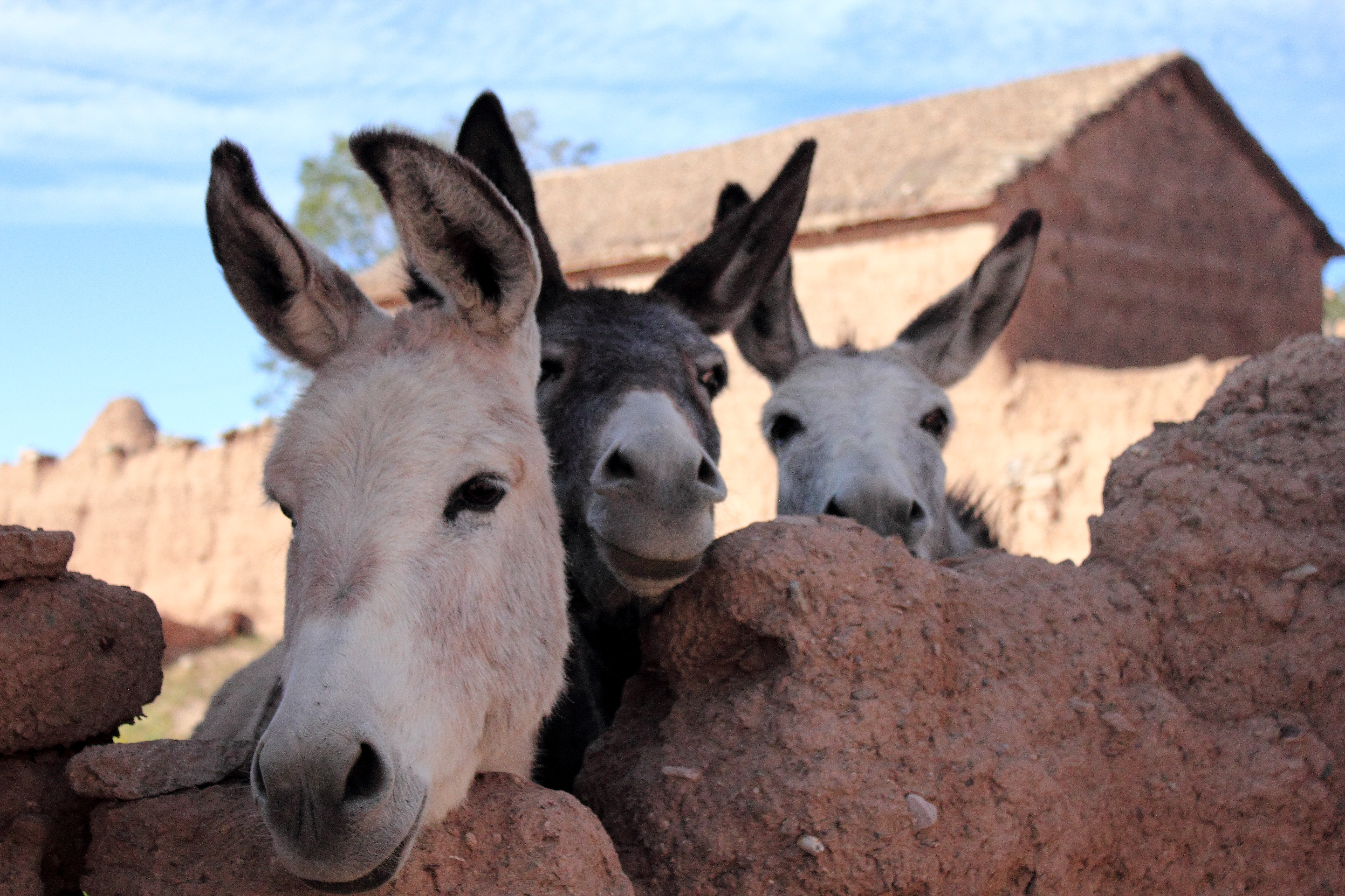 Donkeys